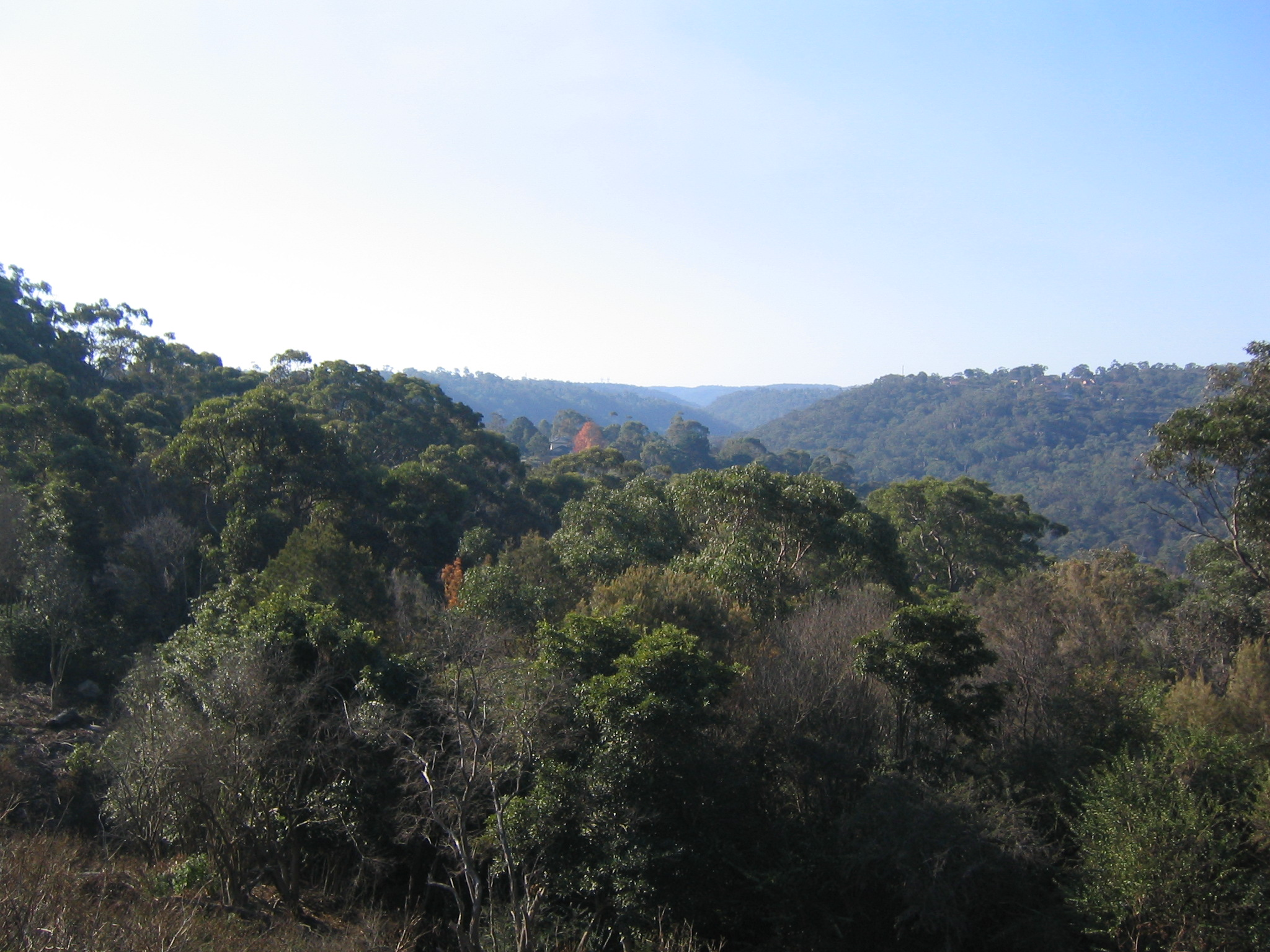 Looking across Hornsby Heights (and Mount Colah) from Rofe Park, Hornsby Heights, Sydney, Australia.